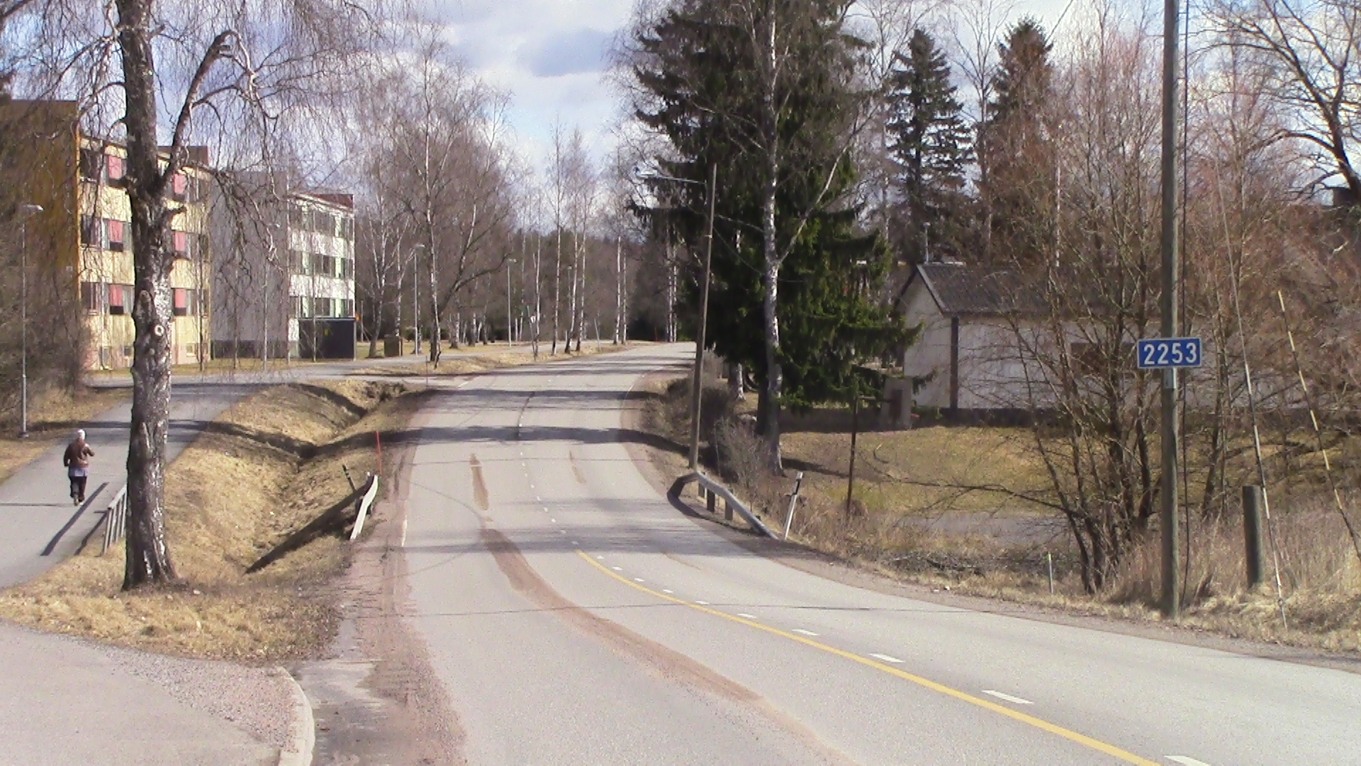 Finnish connecting road 2253 seen from Its ending point at Kyrö in Pöytyä.